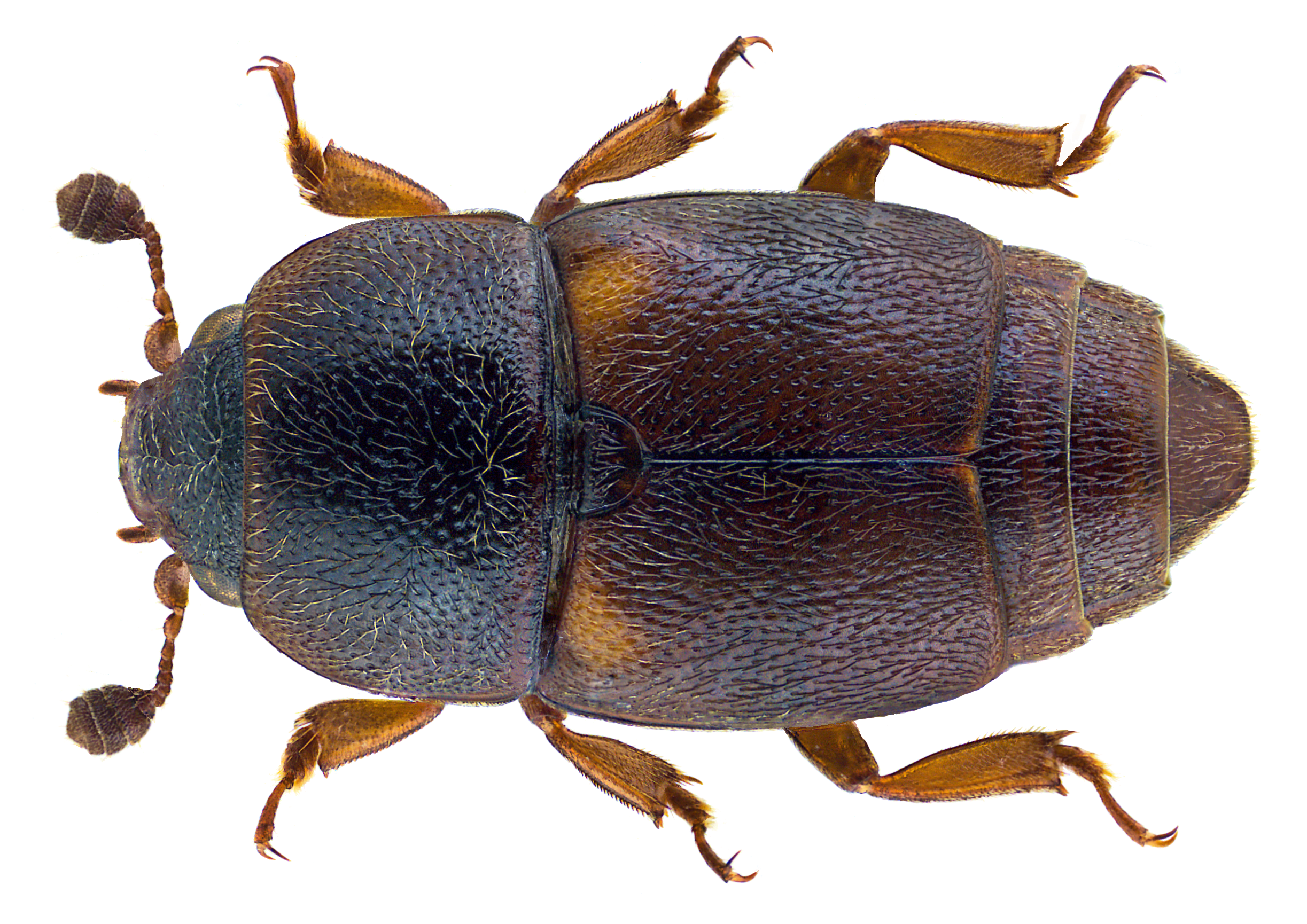 Family: Nitidulidae Size; 4.0 mm (3.0 to 5.0 mm) Origin: cosmopolitan Ecology: on vegetable products Location: Tunisia, Djerba, Mezghaya, environment Hotel Les Sirenes, on fruit bait leg. U.Schmidt, 7.-14.V.2007; det. Jelinek, 2010 Photo: U.Schmidt, 2016